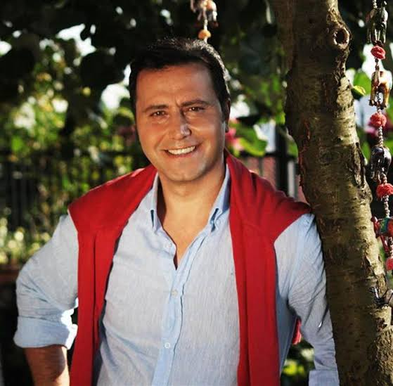 Orhan Hakalmaz